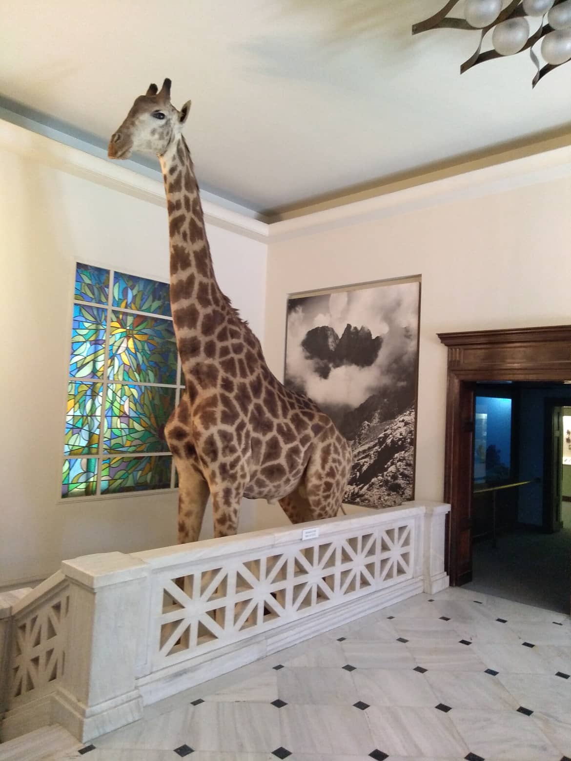 A display of a giraffe inside Goulandris Museum of Natural History is a museum in Kifisia, a northeastern suburb of Athens, Greece.